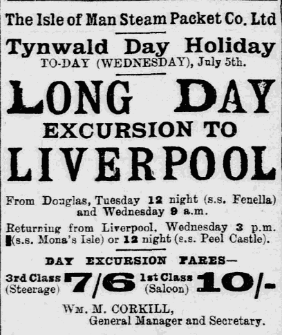 Advertisment for a Day Excursion to Liverpool onboard RMS Fenella, July 5, 1922.